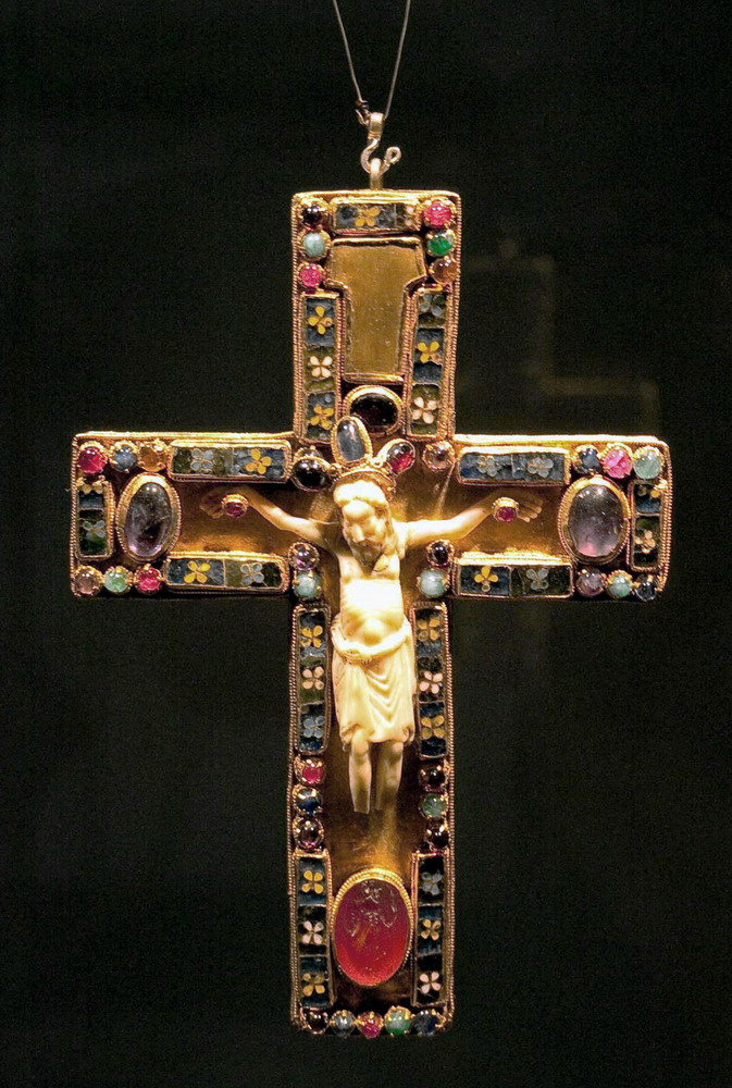 The so-called pectoral cross of Saint Servatius in the church treasury of the Basilica of Saint Servatius, Maastricht, Netherlands. Front: gold on wood with cloisonné enamel plaques, a Roman gem and precious stones around an ivory corpus. Trier, ±1039, probably a gift from emperor Henry III.